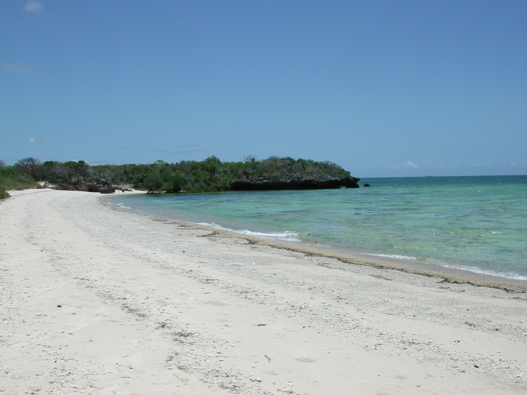 Taken on 31 October 2002 on the island of Quilalea in Mozambique